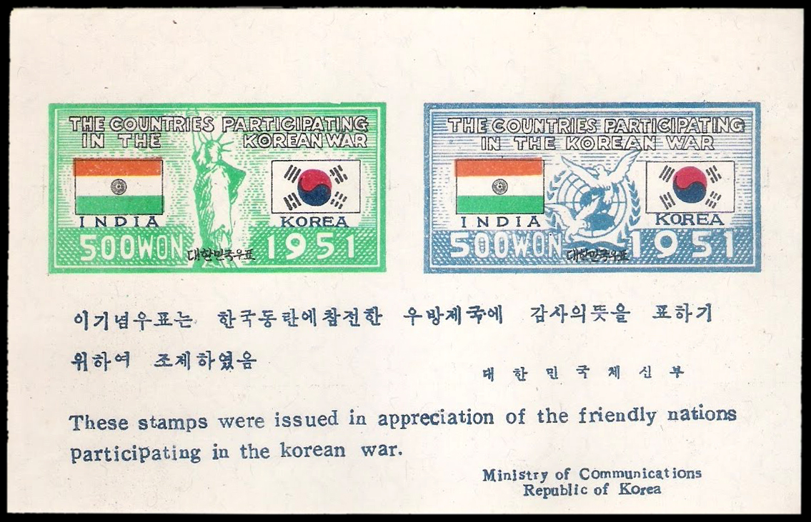 Postage souvenir sheet of two 500 won stamps of South Korea. The countries participating in the Korean war series, India, 1951, scott#152 and #153